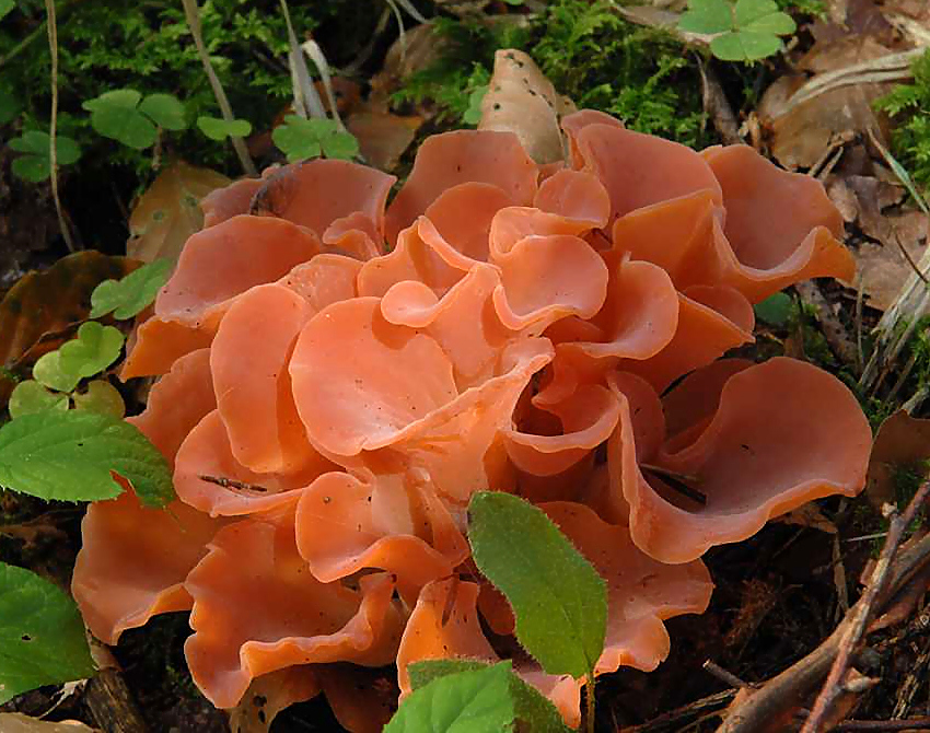 Guepinia